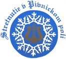 Logo of the Festival of Slovak Folk Songs "Stretnutie v pivnickom poli" ("Meetings in the Pivničko polje"). Srpski (latinica): Logo Festivala slovačke izvorne pesme "Susreti u pivničkom polju".